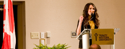 Tara Teng speaking at the Trinity Western University State of the University Dinner on April 18, 2011